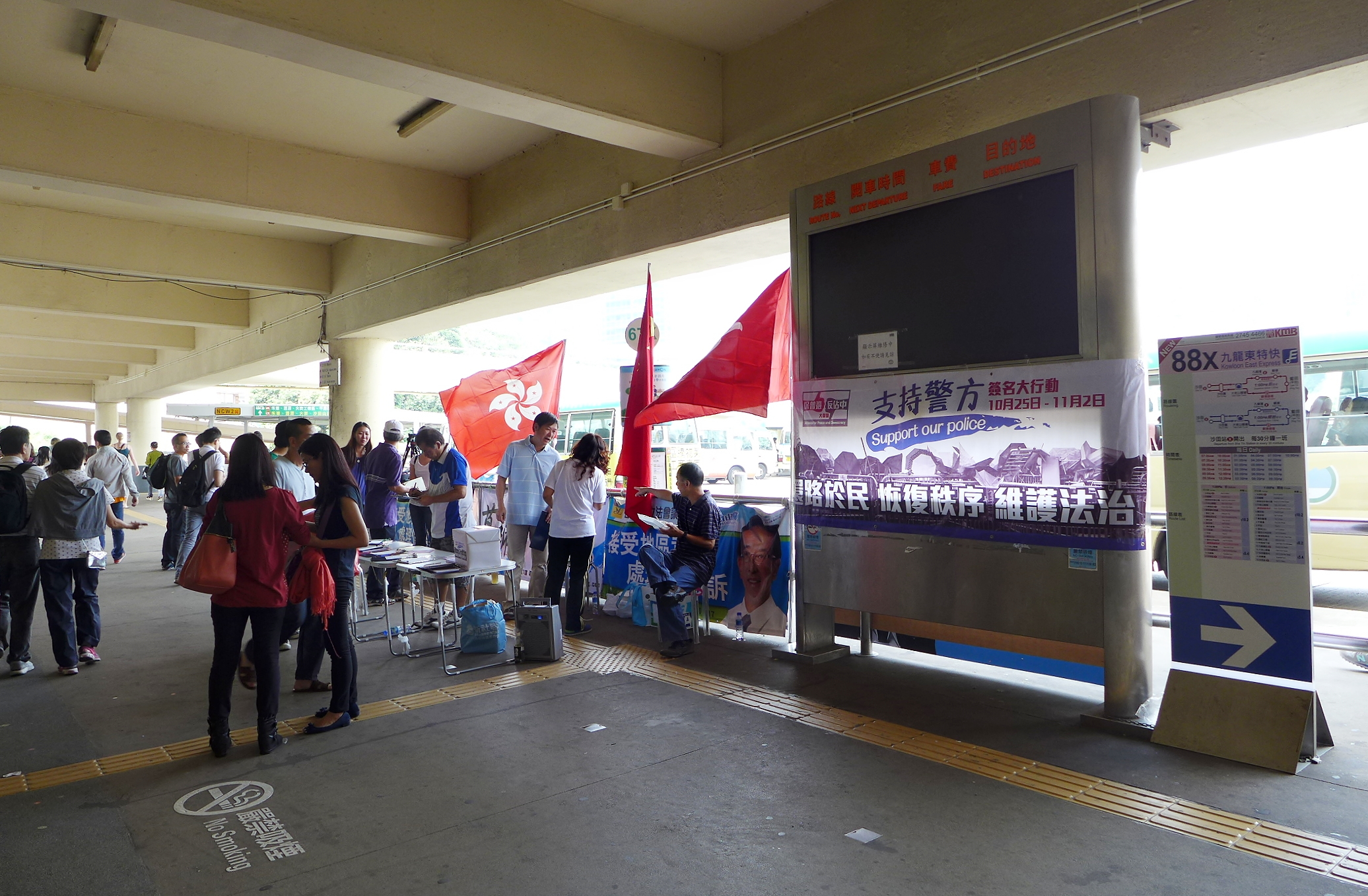 Anti Occupy Central Signature in Shatin Station Bus Station Terminal